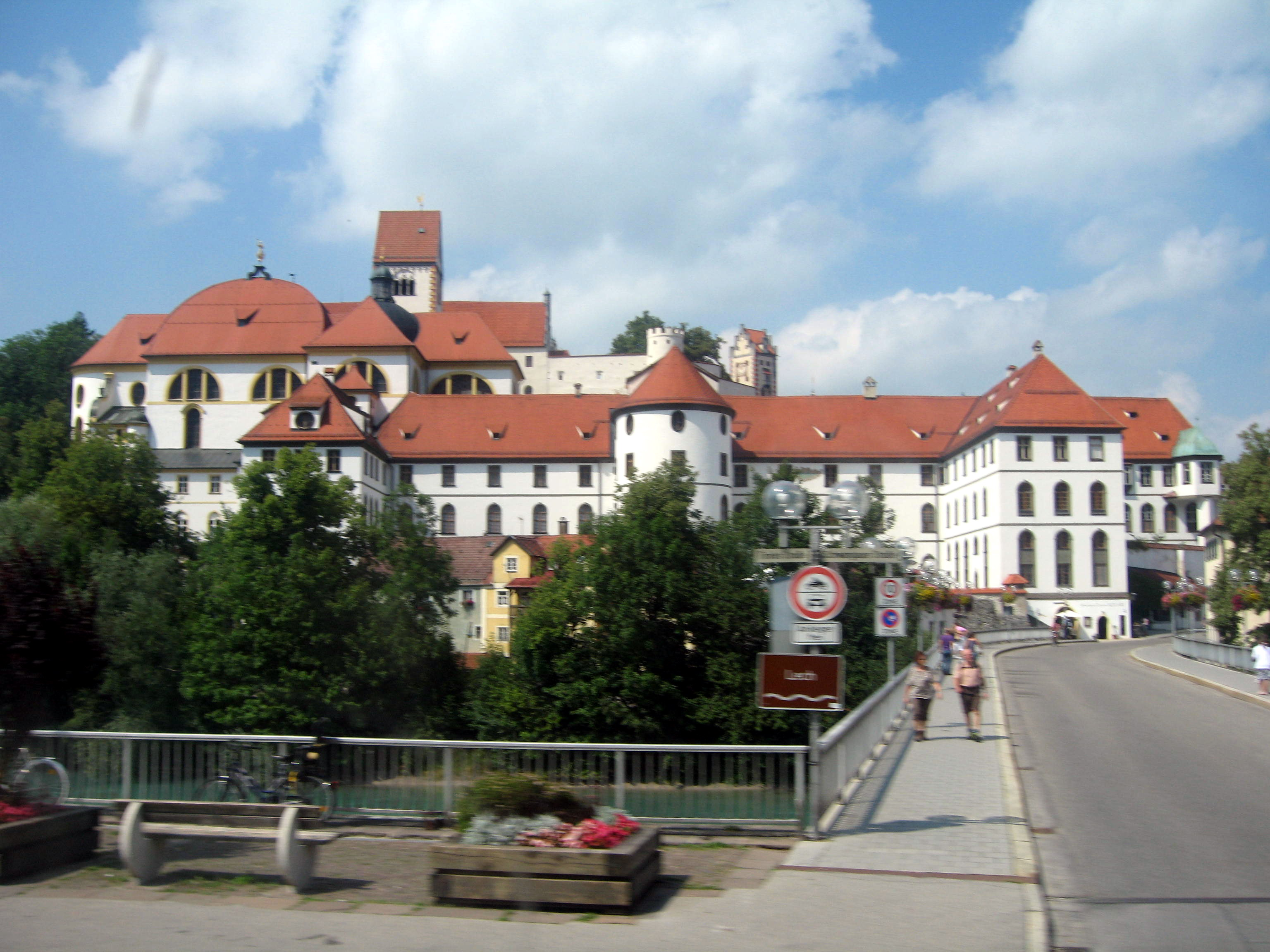 Füssen Castle, Germany